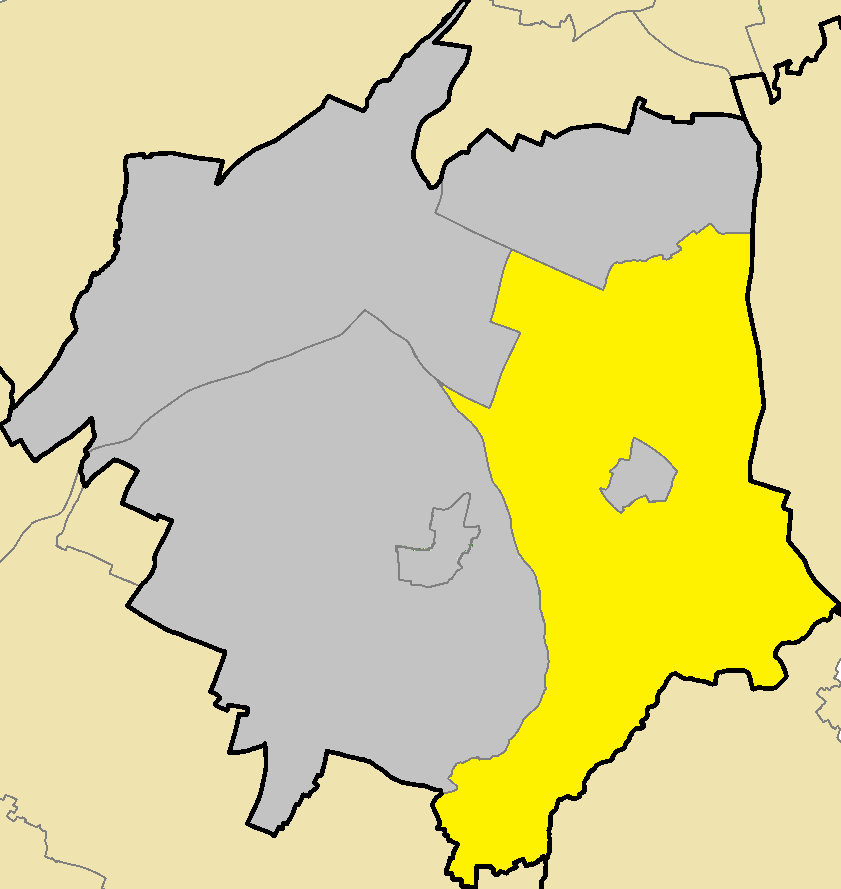 Apostolos Varnavas kai Agios Makarios in Strovolos.